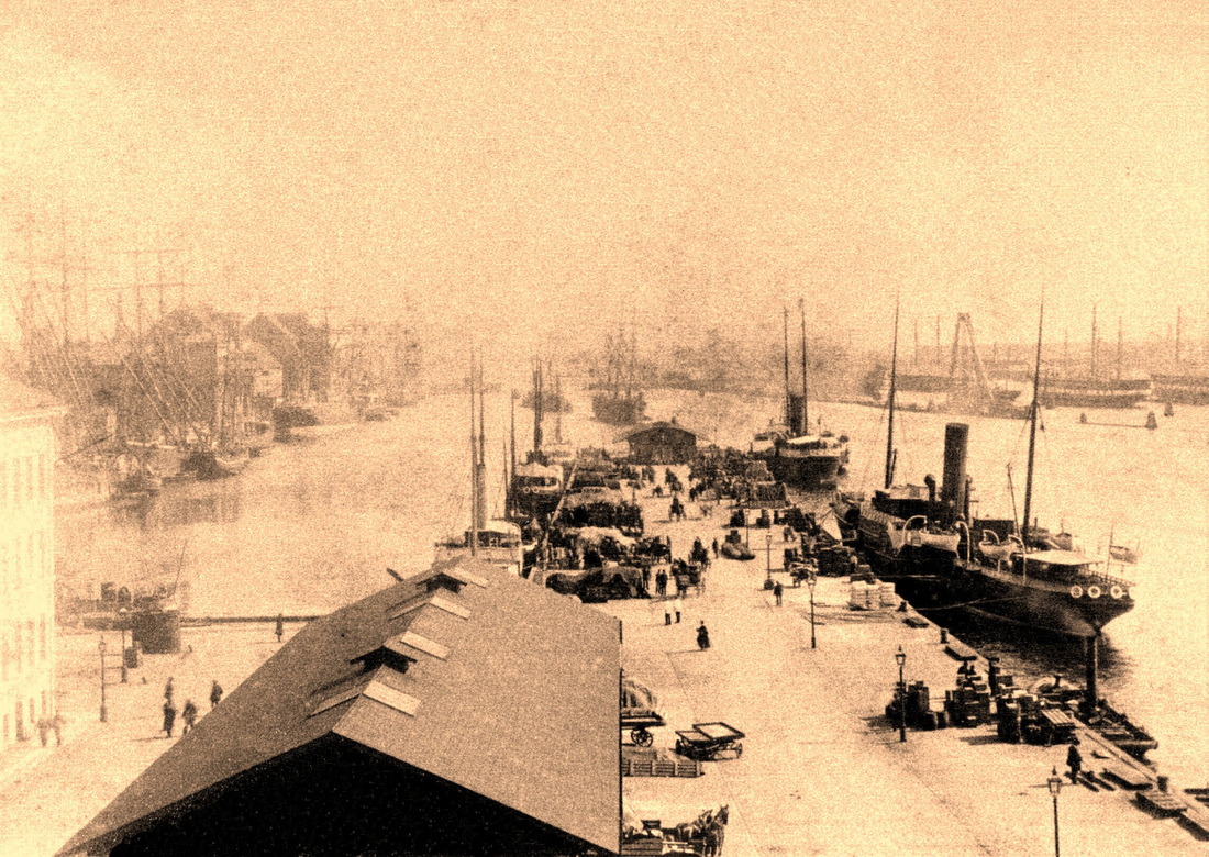 Kvæsthusbroen in Copenhagen harbour, photographed by Jens Hansen Lundager just days and weeks prior to his own migration to Queensland in 1878.